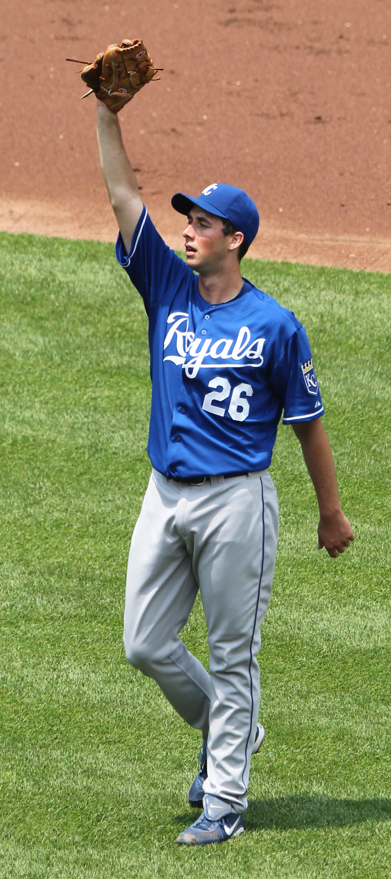 Jeff Francis of the Kansas City Royals on May 26, 2011